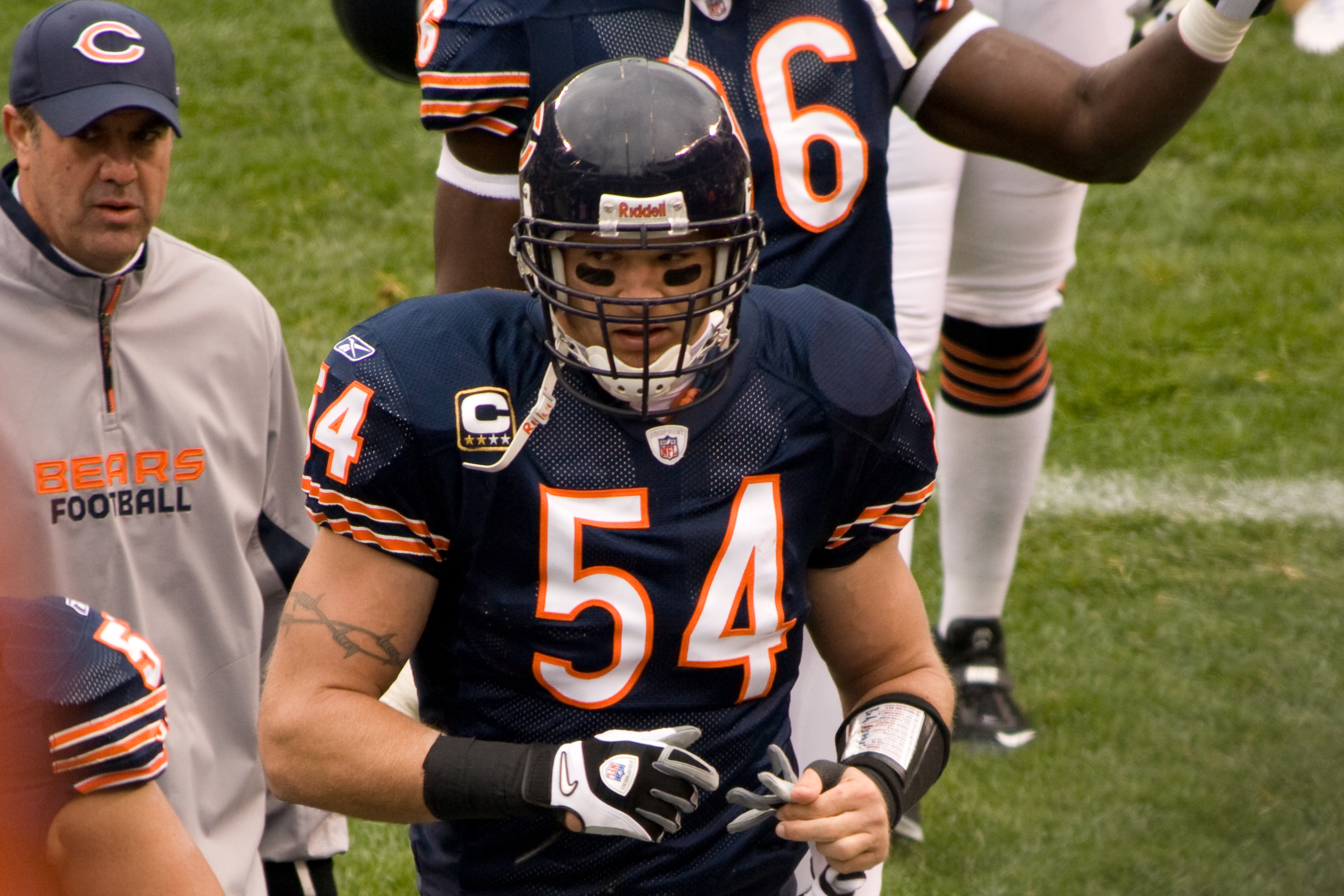 Brian Urlacher of the Chicago Bears